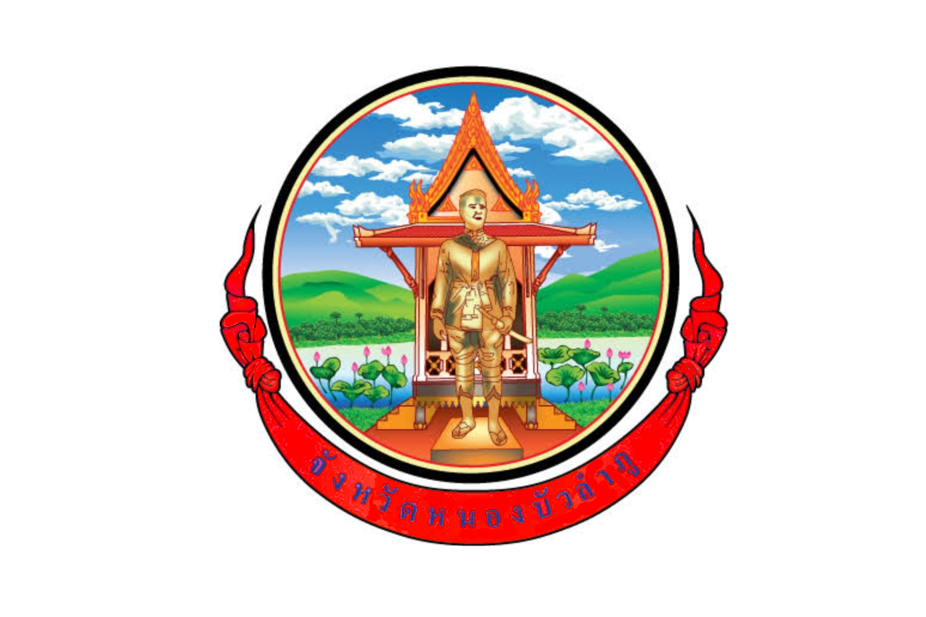 Flag of Nong Bua Lamphu Province